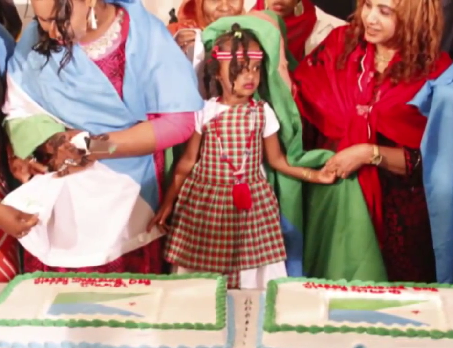 Somali women and little girl at a Somali community event in Minneapolis.